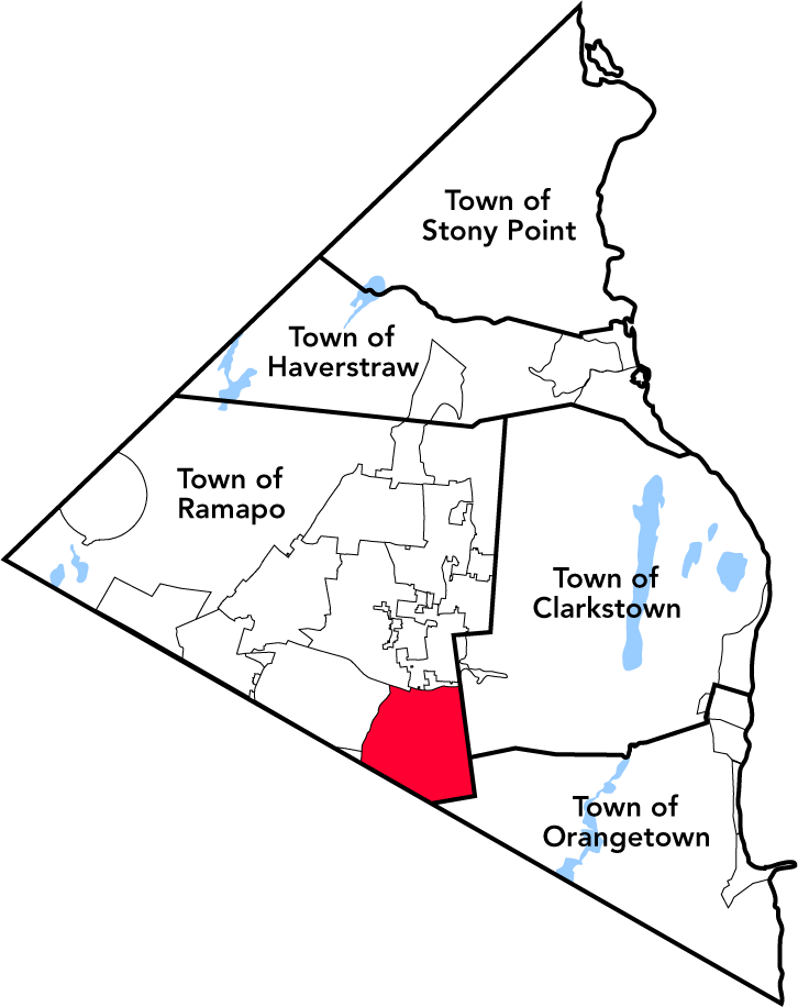 I made this file. :: Salvo (talk) 09:11, 20 February 2006 (UTC)